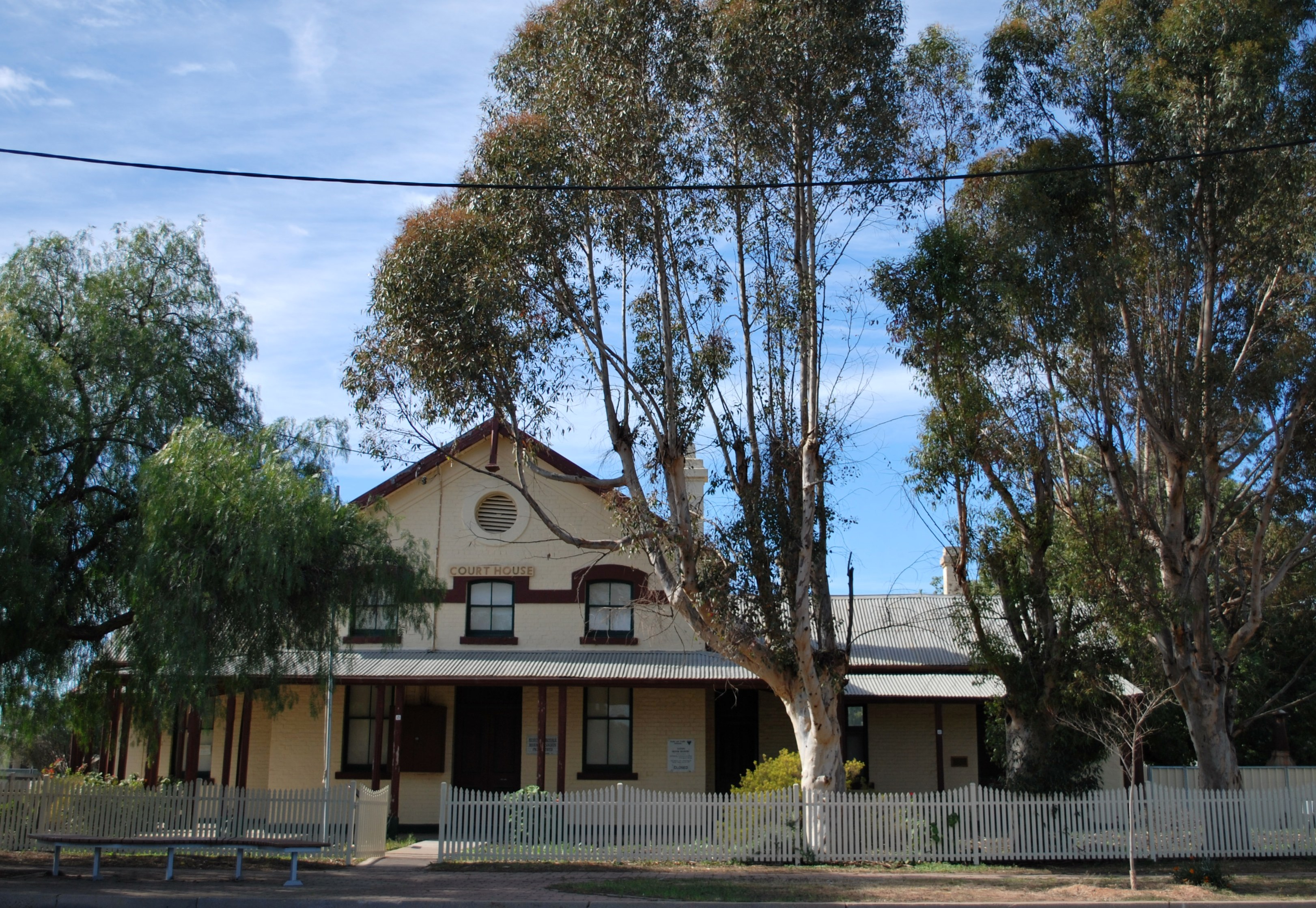 Court house at Euston, New South Wales